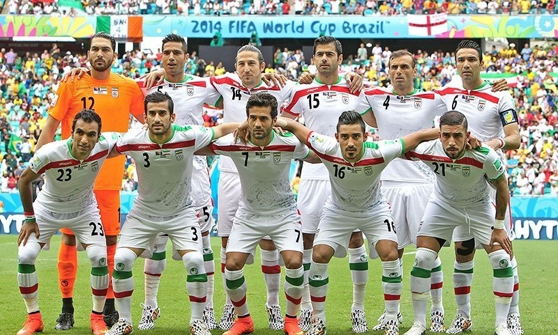 Bosnia and Herzegovina and Iran match at the FIFA World Cup